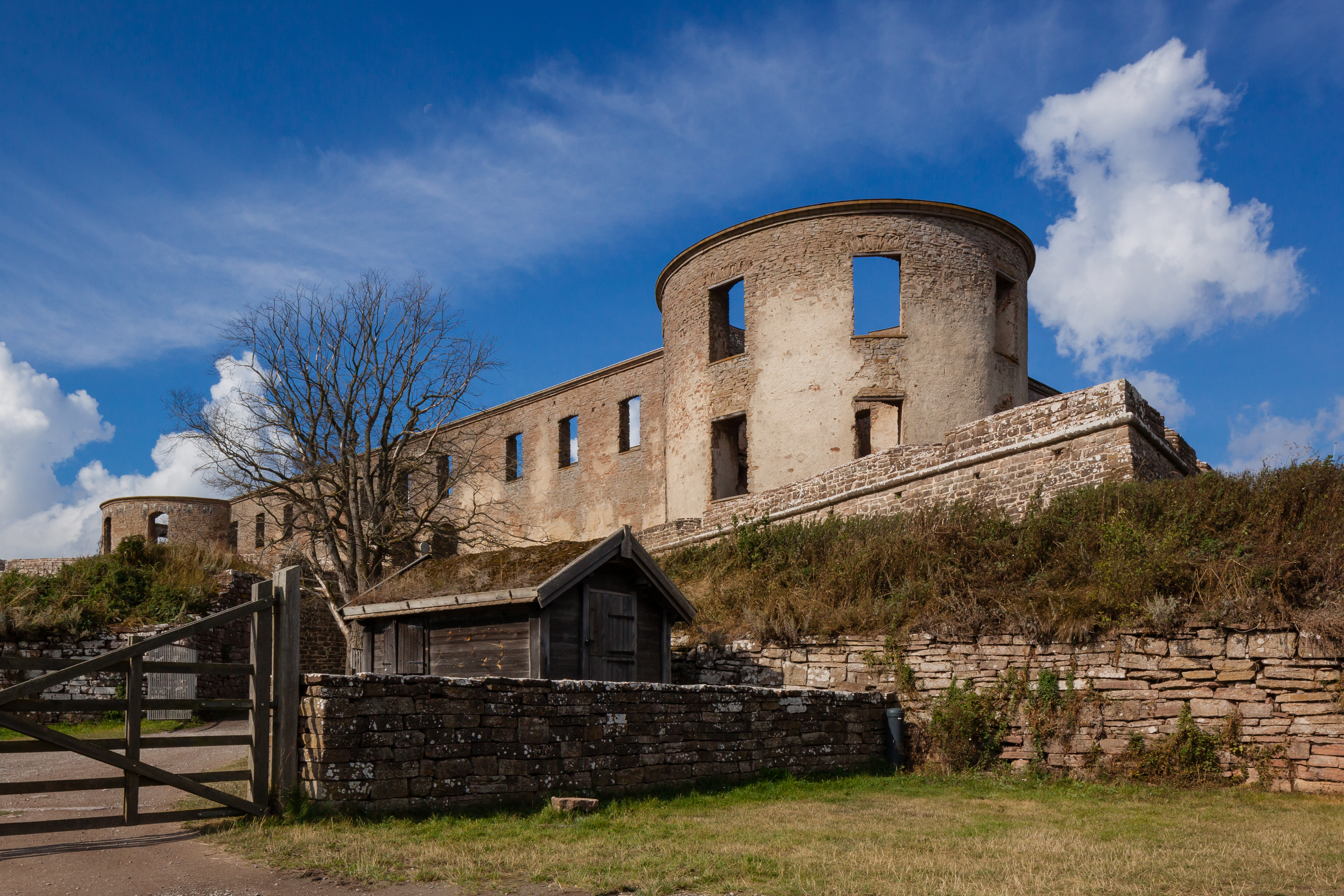 Borgholms slottsruin (Borgholm 8:16) Front View of Borgholm Castle, Öland, Sweden